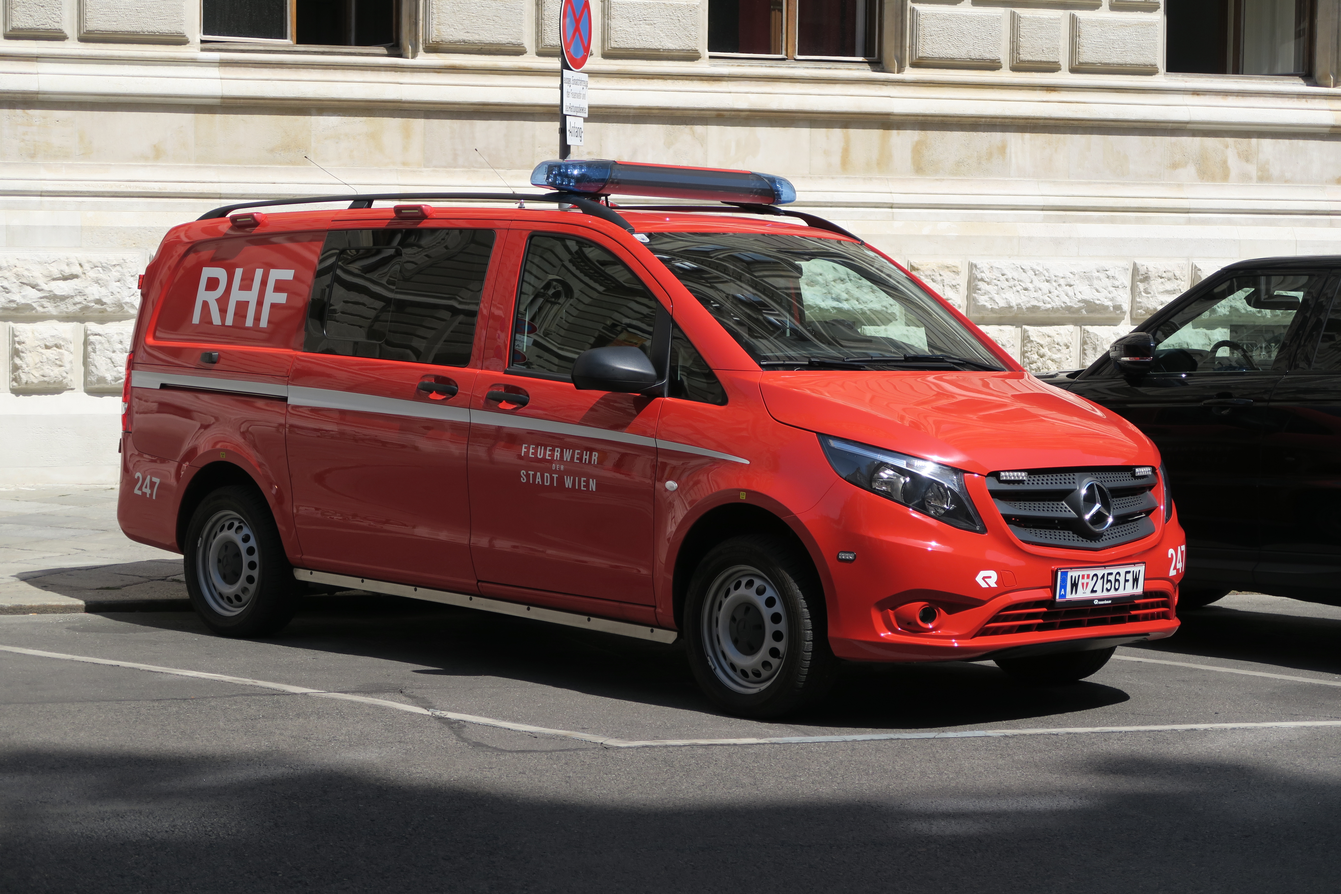 Vienna City Fire Brigarde